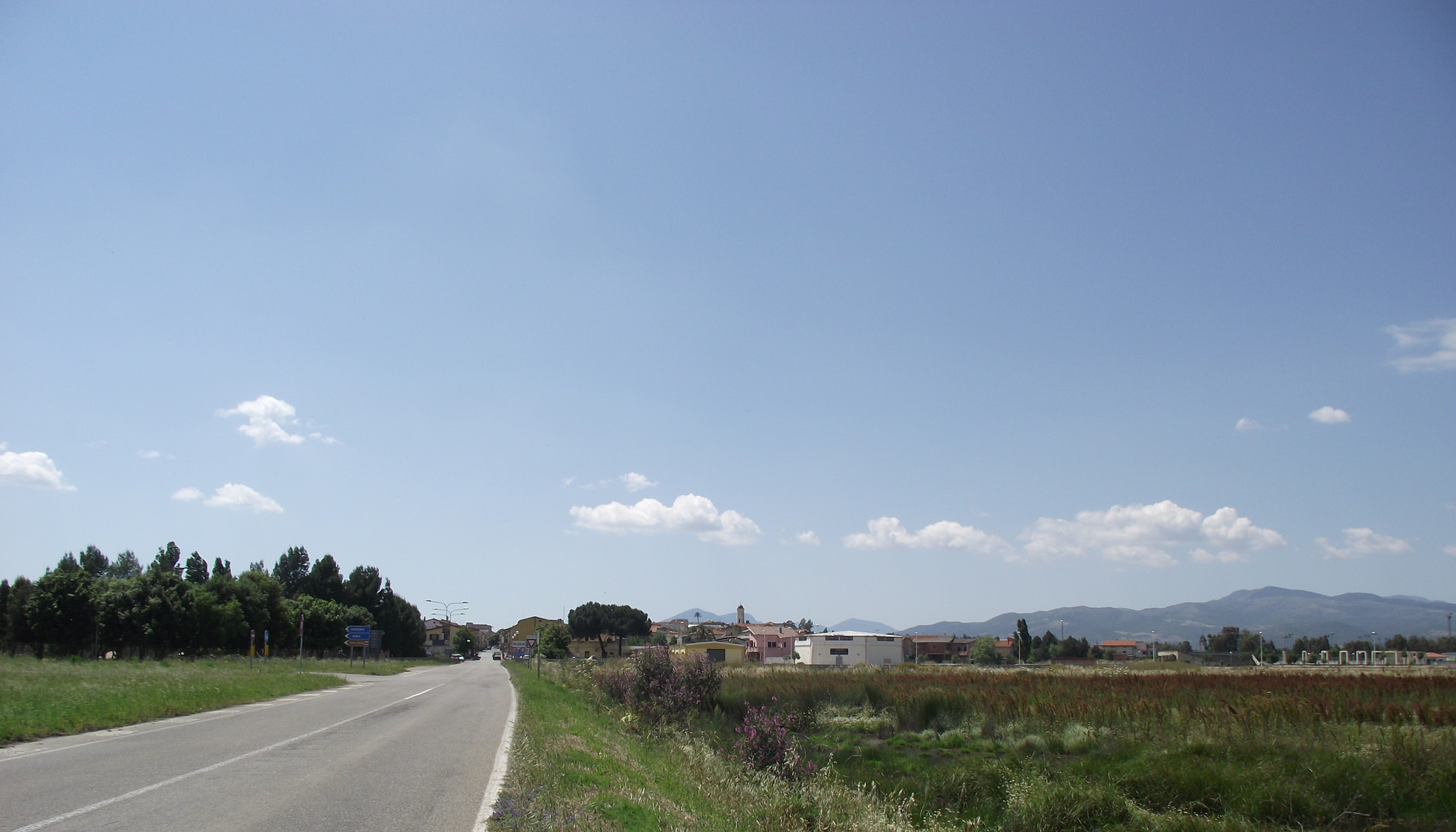 The town of Siliqua, in Sardinia, Italy